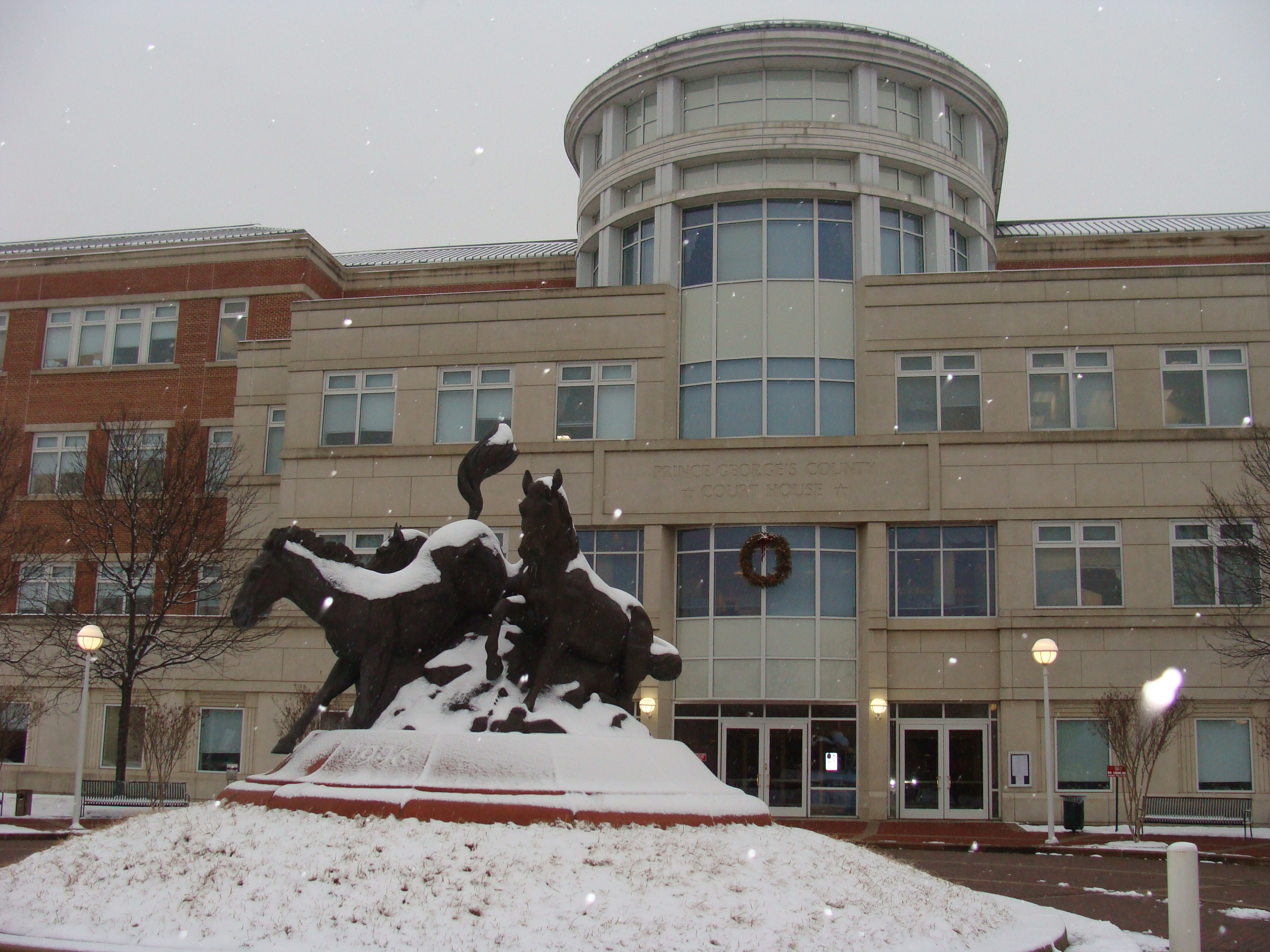 Image of the main entrance to the Prince George's County, MD Courthouse during a snow shower.